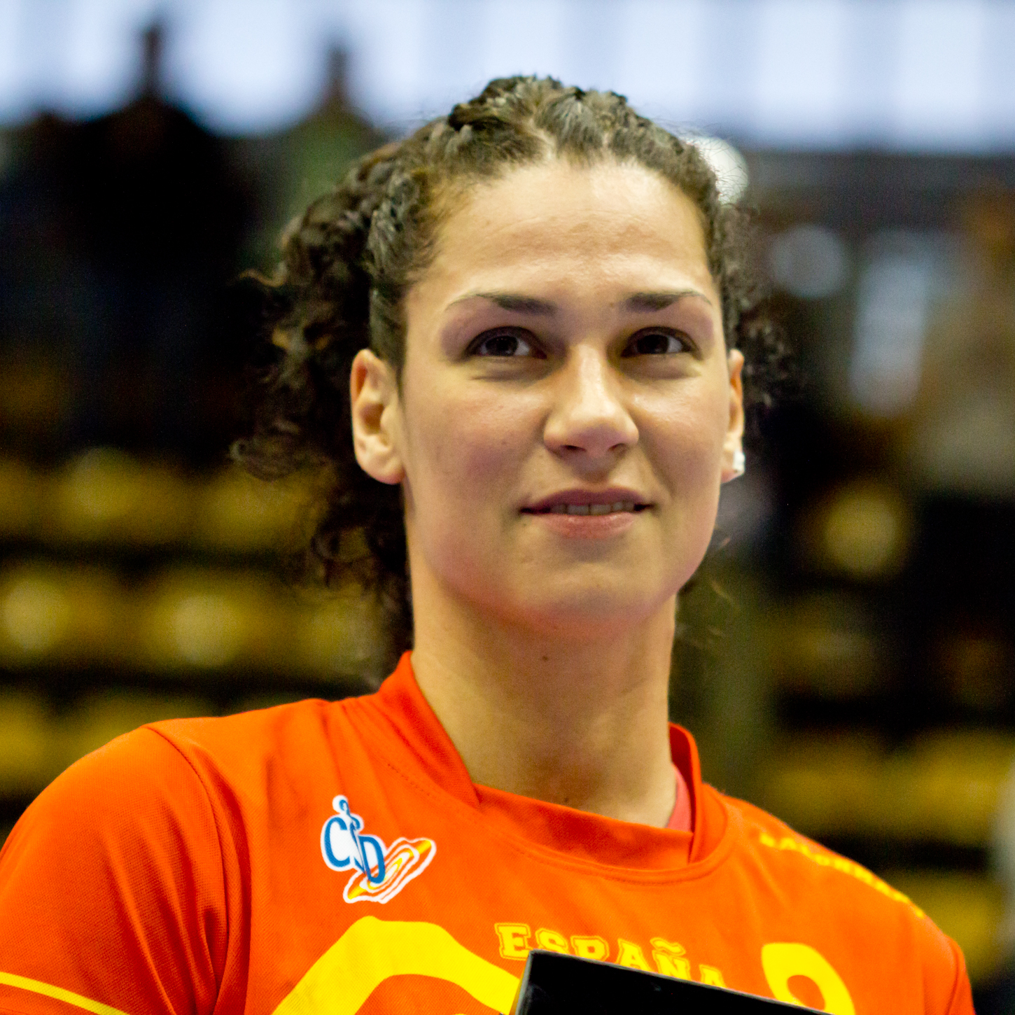 Farewell of Verónica Cuadrado from the Spain national handball team, at the Spain Handball All Star Game 2013, in San Sebastián de los Reyes, Madrid, Spain.